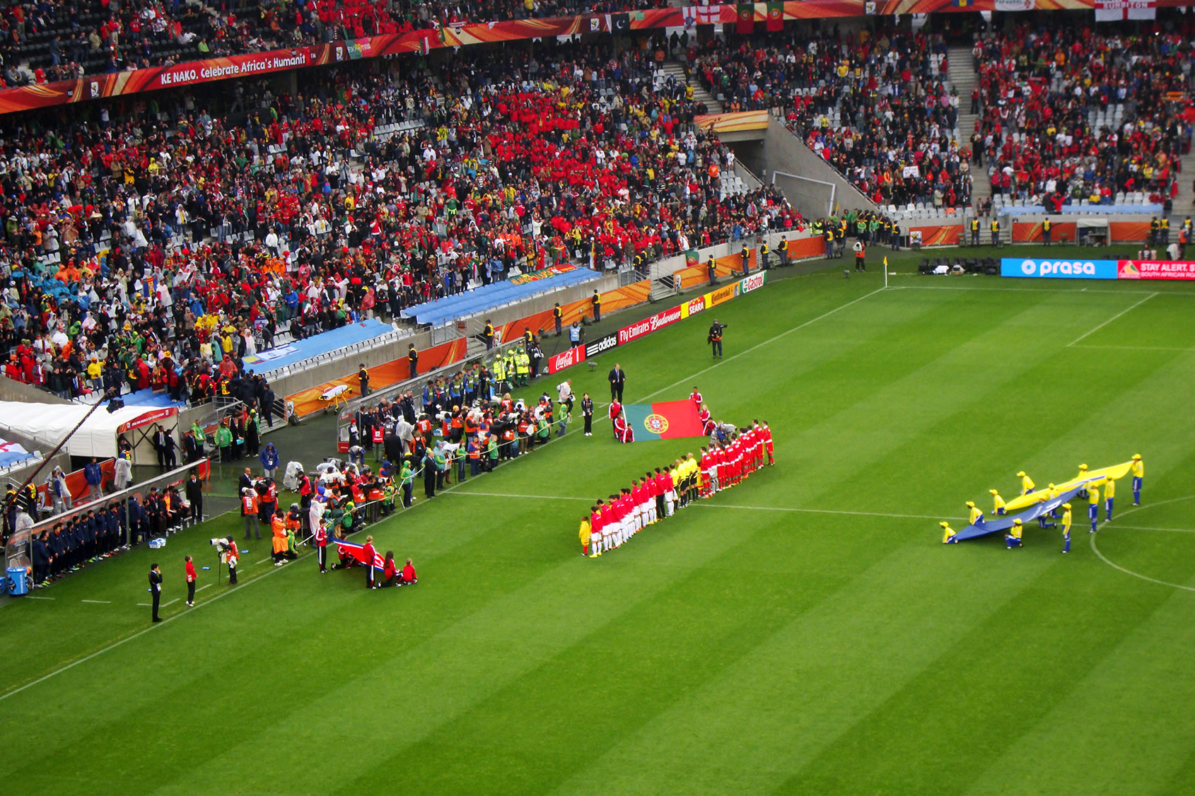 Group G encounter, Portugal vs. Korea DPR at Cape Town Stadium. Teams are on the pitch waiting for the national anthems to be played.